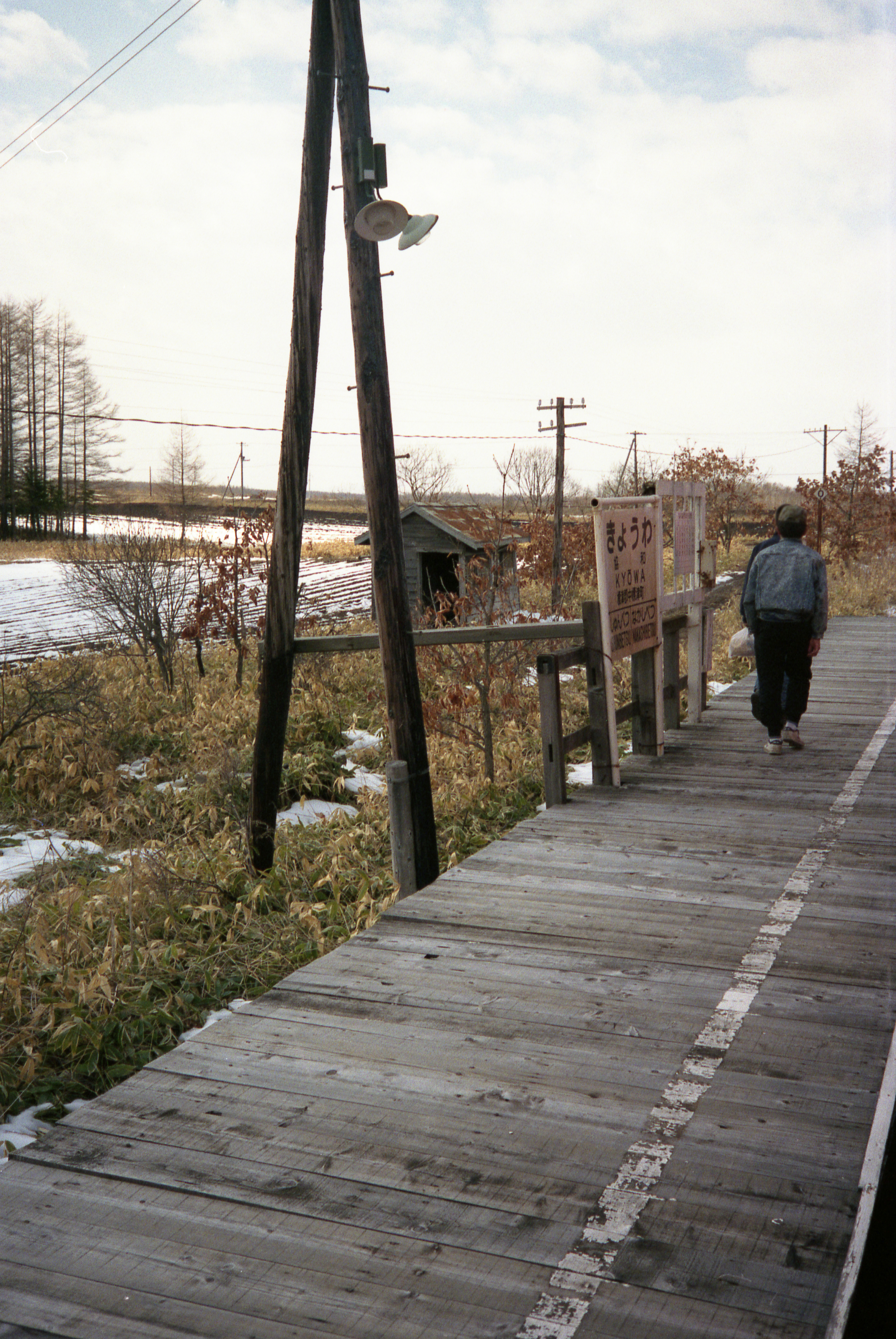 The platform and building of Kyowa Station,Hokkaido Railway Company Shibetsu Line(before abolished)